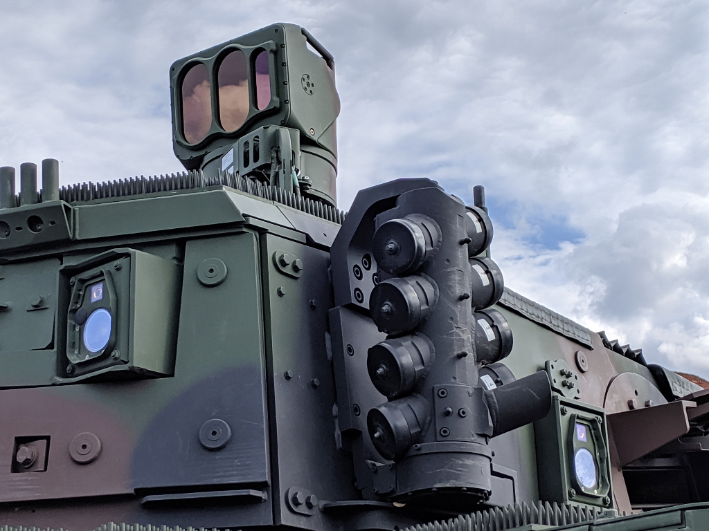 MUSS components: IR jammer, UV sensors, fog granades dispenser mounted on German Army Puma IFV, Berlin 2019